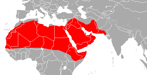 Trident Bat (Asellia tridens) range